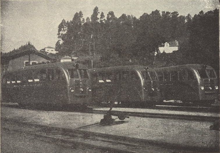 Railcars at Sernada do Vouga railway station, in the Vouga railway, in Portugal. This image was published on the Gazeta dos Caminhos de Ferro magazine no. 1363, of the 1st October 1944, and scanned by the Hemeroteca Municipal de Lisboa.